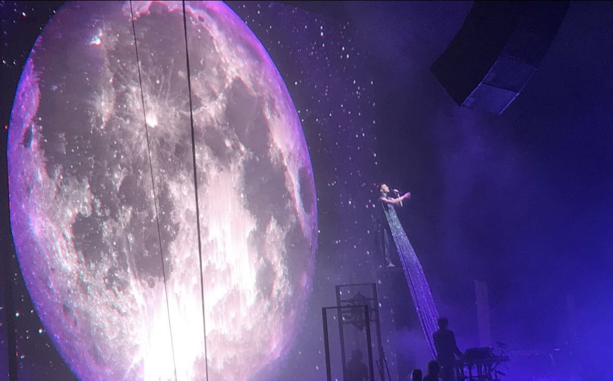 Olly Alexander Performing Palo Santo at London 02 Arena 5.12.18